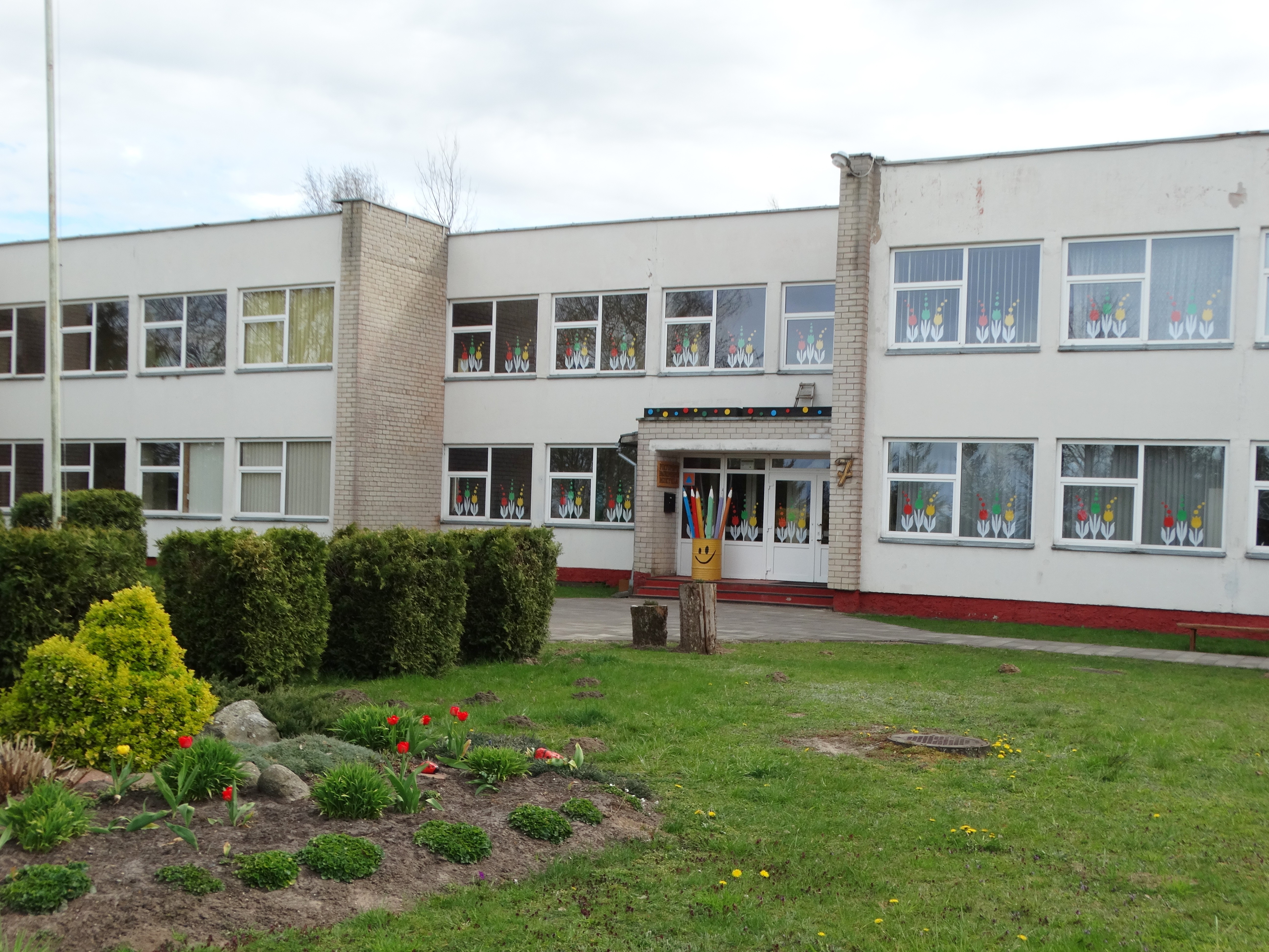 School, Piktupėnai, Pagėgiai Municipality, Lithuania